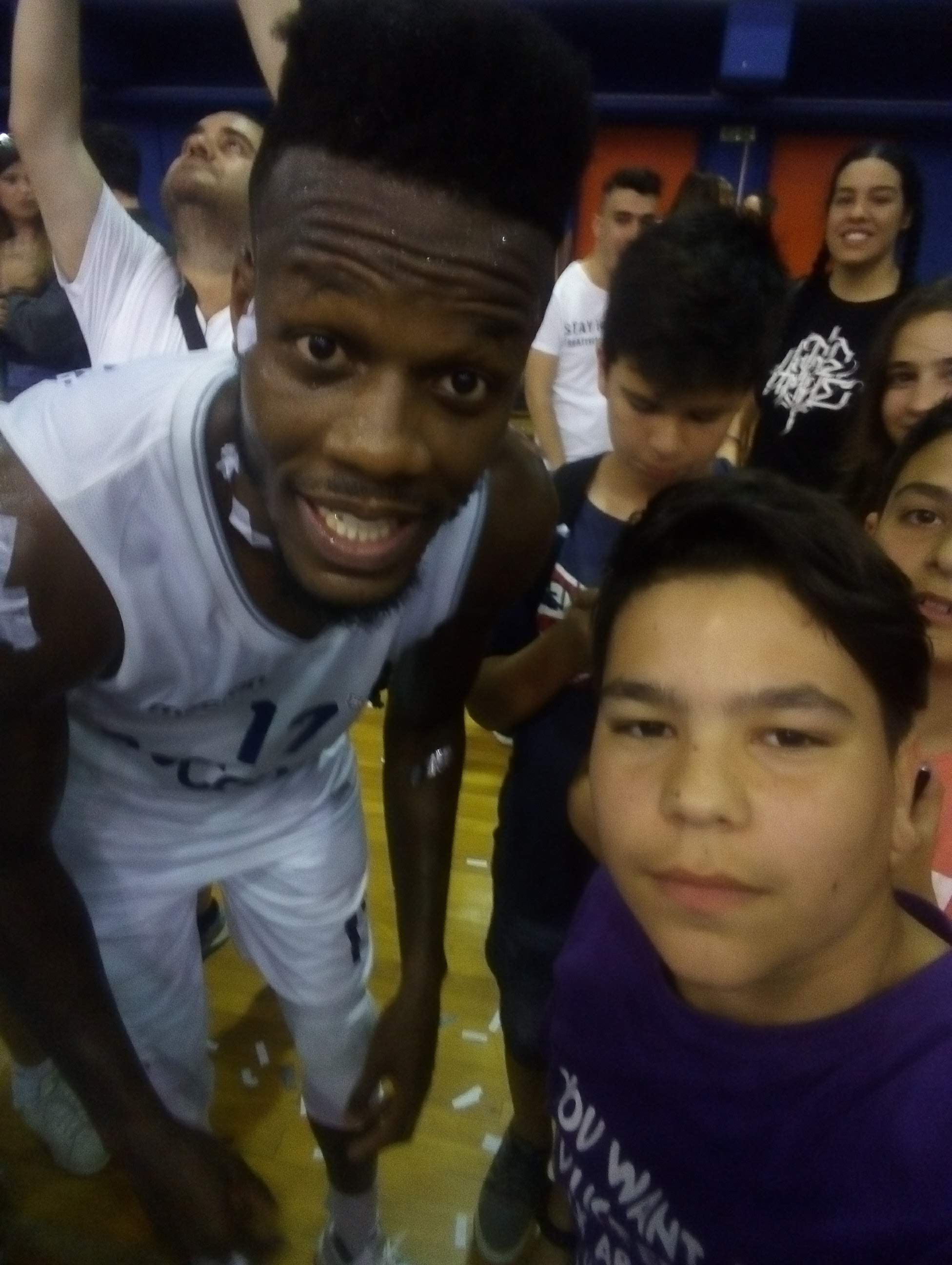 Rashad Bell (left) during May 2018 after a crucial win for Holargos witch led the team to the first division. Bell was one of the best players on the pitch